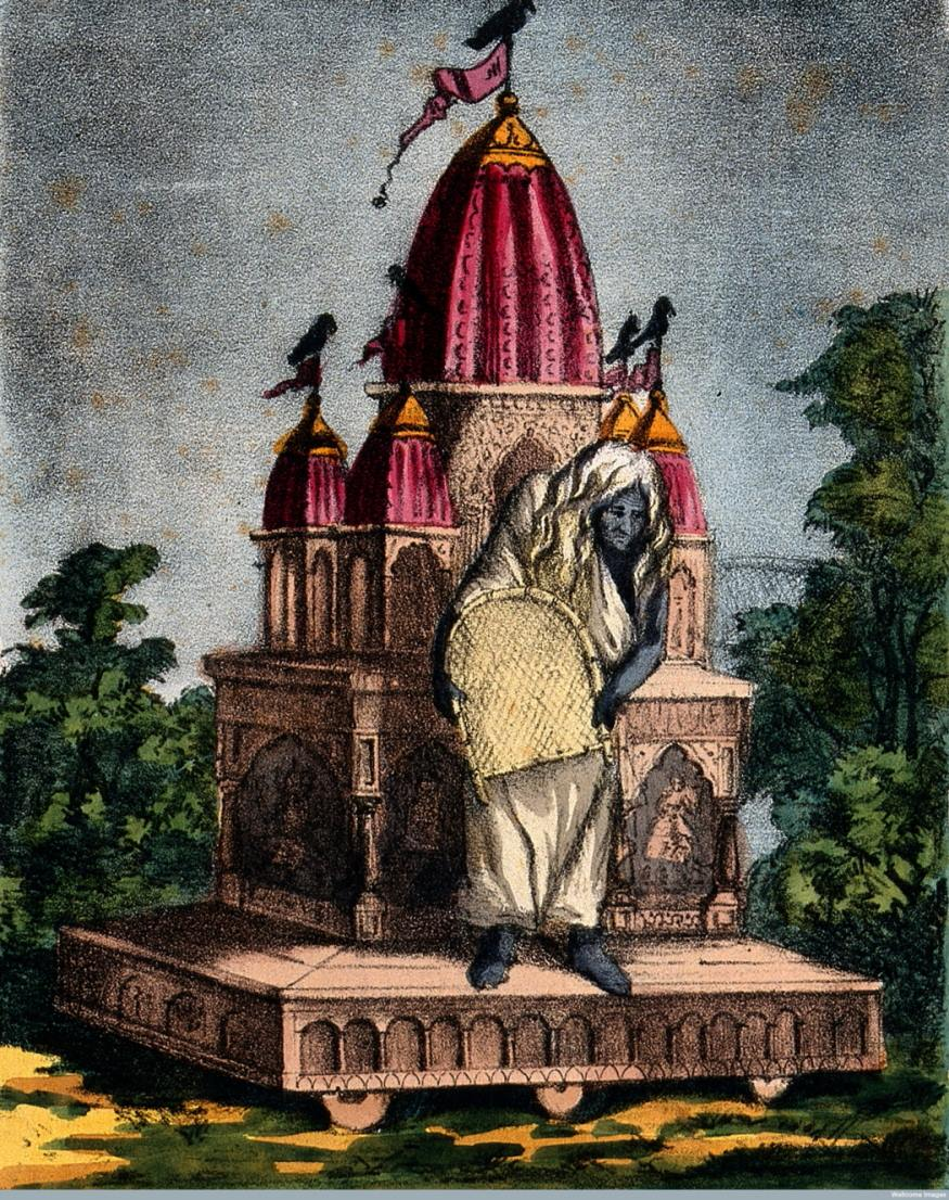 "Dhūmāvatī meaning the Smokey One, is the seventh mahāvidyā who represents or personifies the final stage of the destruction of the universe by fire. This is a typical representation of her portrayed as a hideous crone, with a long nose and cruel eyes, carrying a winnowing basket" Iconographic Collections